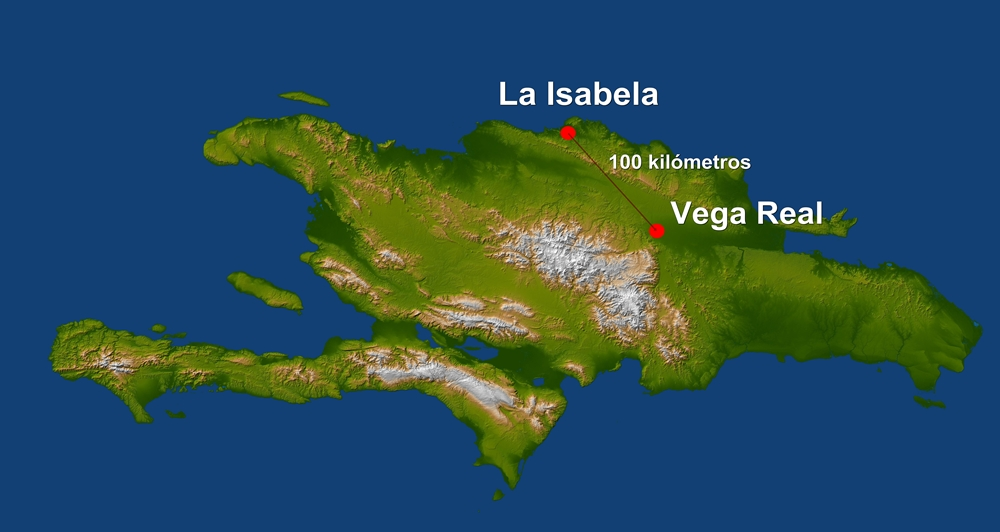 Vega Real on a NASA map